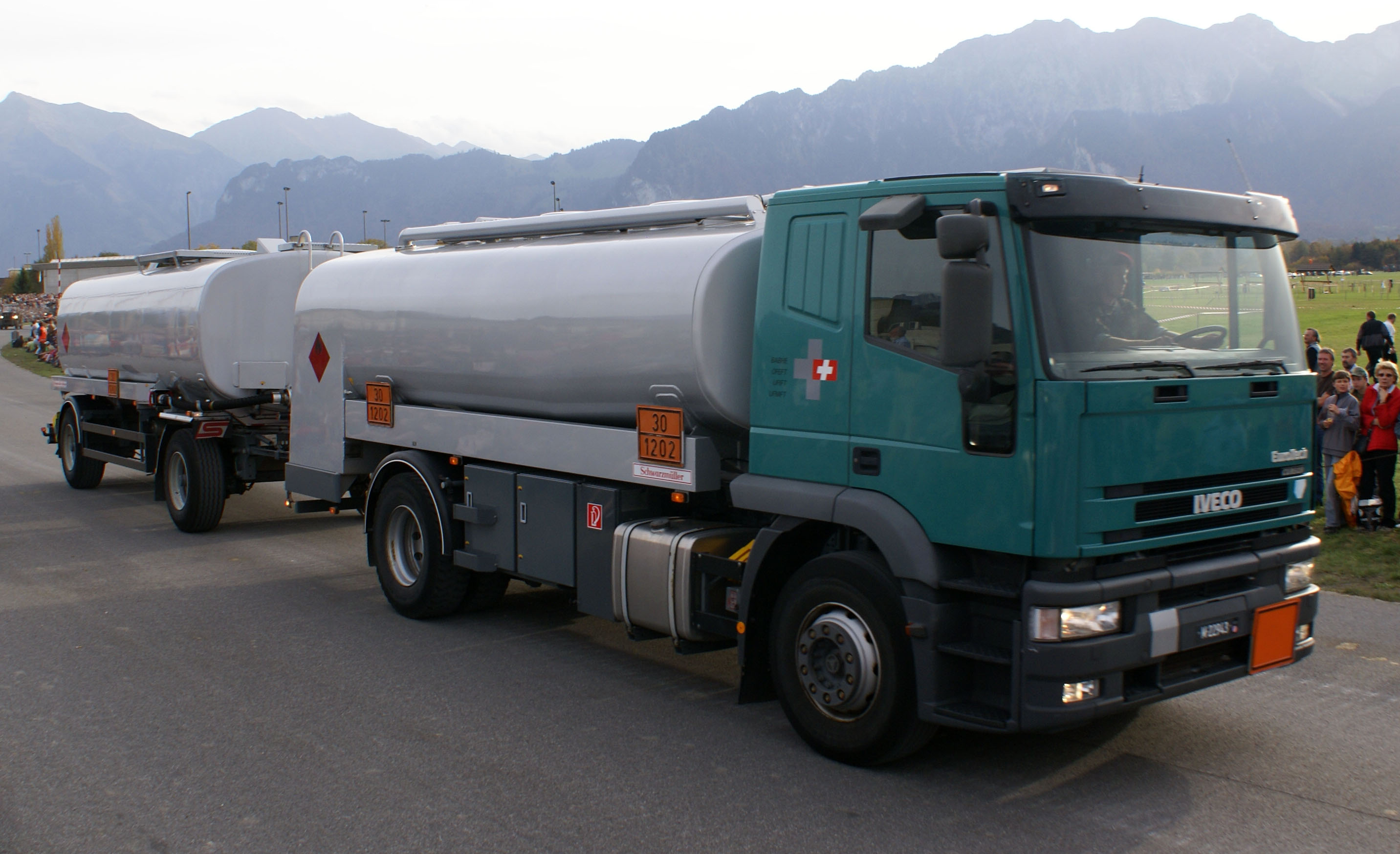 Swiss Army. IVECO tank truck. Participating in the "Steel Parade" of the 2006 Army Days, Thun.